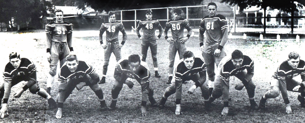 Scan of photo from my grandfather's collection. 1941 Saint Stanislaus College prep school (Bay. St. Louis, Mississippi) Gulf Coast championship football team featuring 1945 Heisman Trophy winner and Army Black Knights football great Felix "Doc" Blanchard (#61 in the photo).